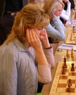 Tatiana Kononenko, Women Team Championship for German states 2006 at Braunfels, Photographer Gerhard Hund.